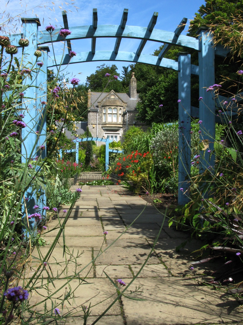 Jill's garden, Grove Park, Weston-super-Mare, North Somerset, England. Built in memory of murdered televison presenter Jill Dando by Alan Titchmarsh and the BBC Ground Force team.